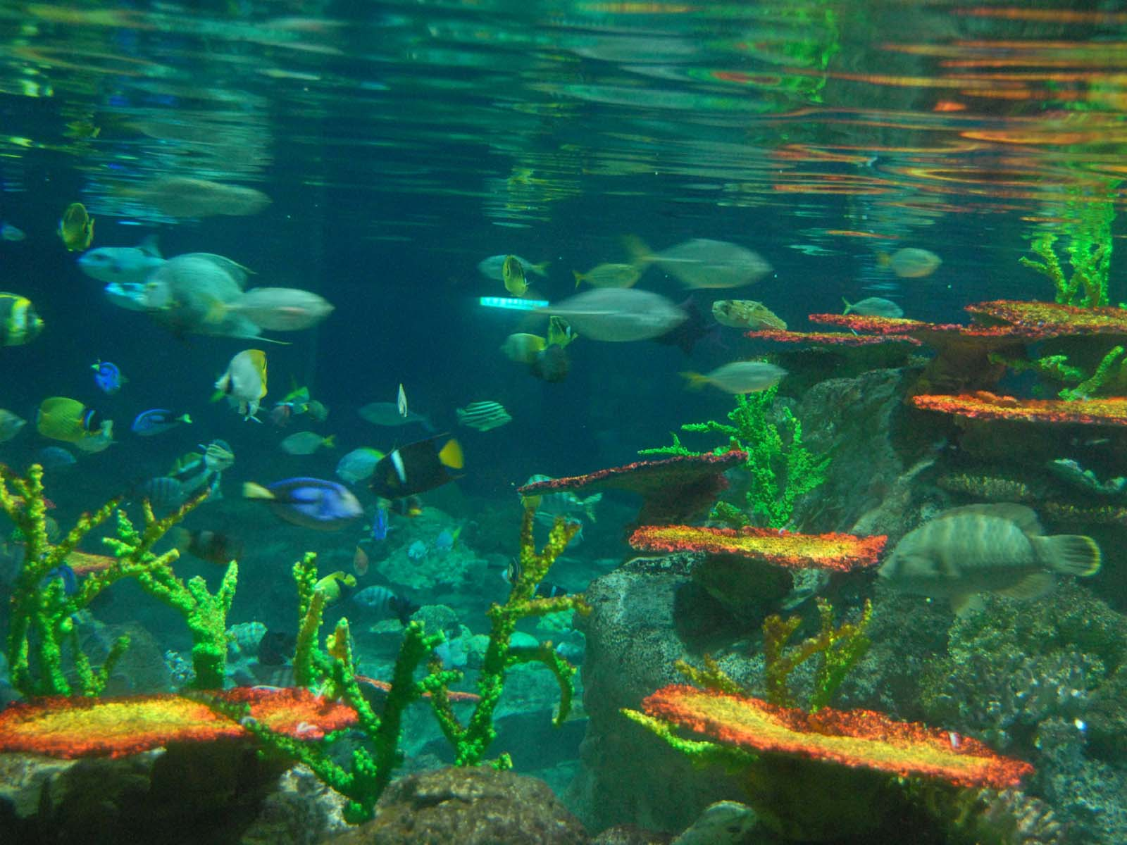 Underwater World in Hong Kong Ocean Park 海洋公園的水下世界